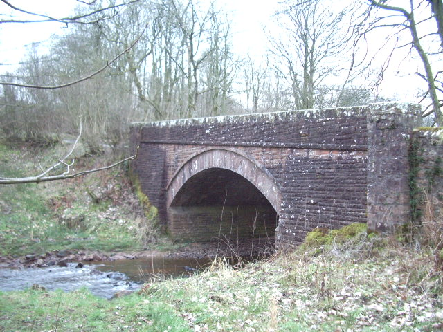 Solport Bridge Carries the "C" class road over Rae Burn